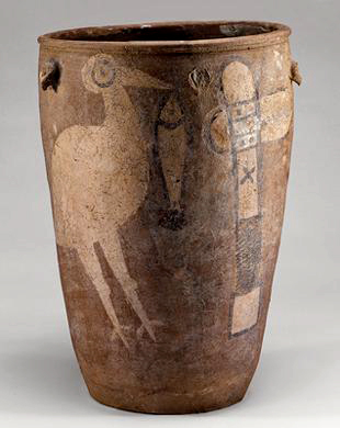 Neolithic pottery jar with stork & fish, Yangshao Culture, Henan, 1978, largest Neolithic painting on pottery. Collections of the National Museum of China.